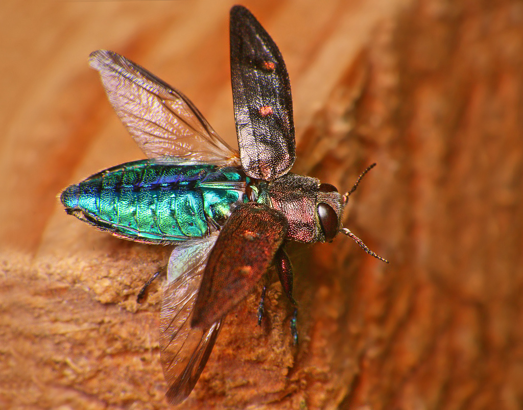 I found this beautiful beetle on the firewood. It's one of the rare spieces in Lithuania. It exterior is not very interesting, but under the wings you can see beautiful blue reflecting colour. :) Please have a view of full size... Thanks :)